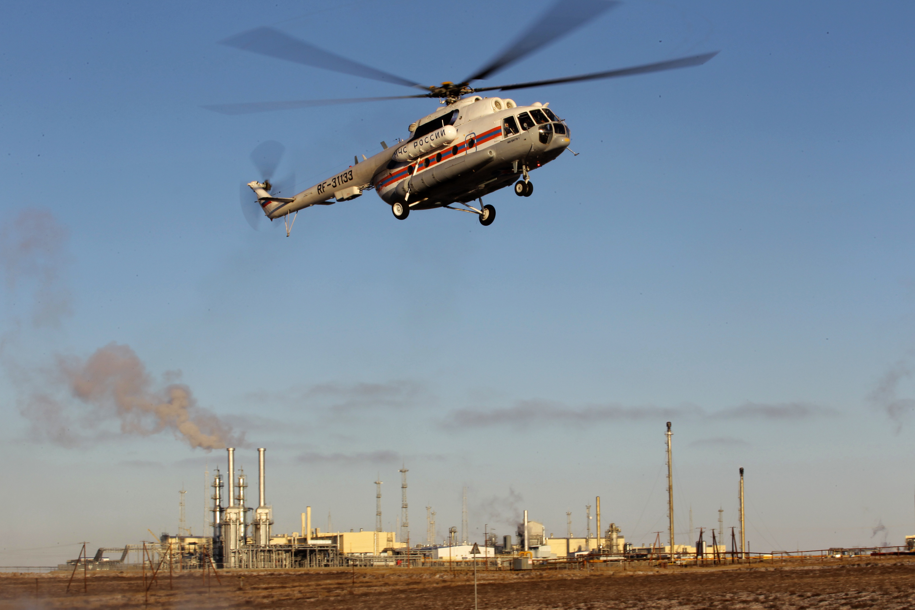 Yurharovskoe gas field (Yamalo-Nenets Autonomous Okrug, Russia)